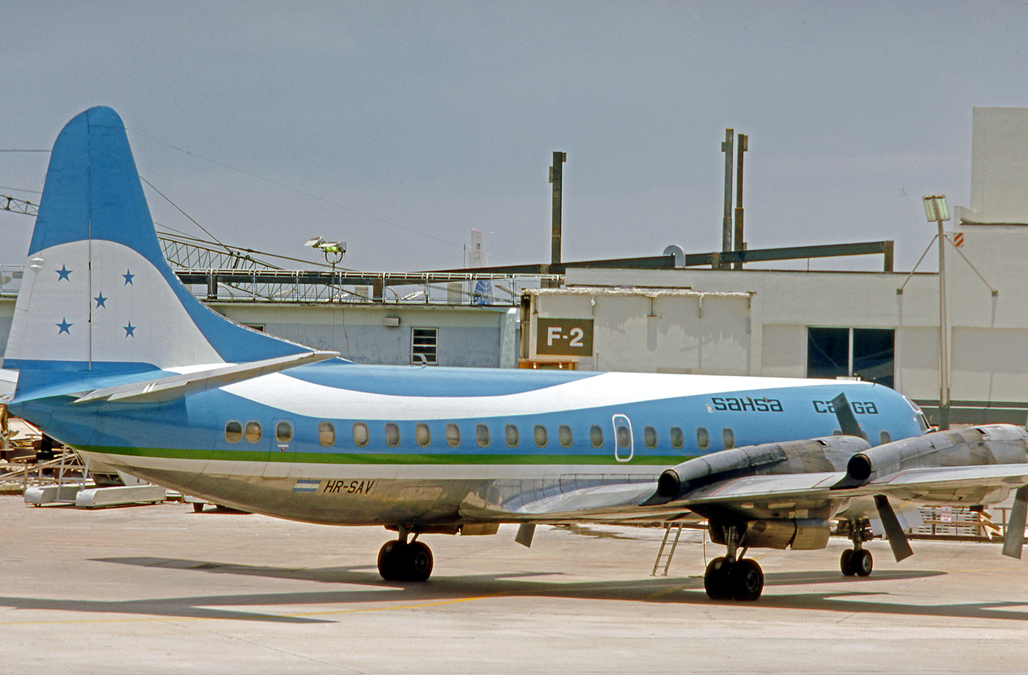 Lockheed L-188A Electra II HR-SAV of SAHSA at Miami International Airport in 1976